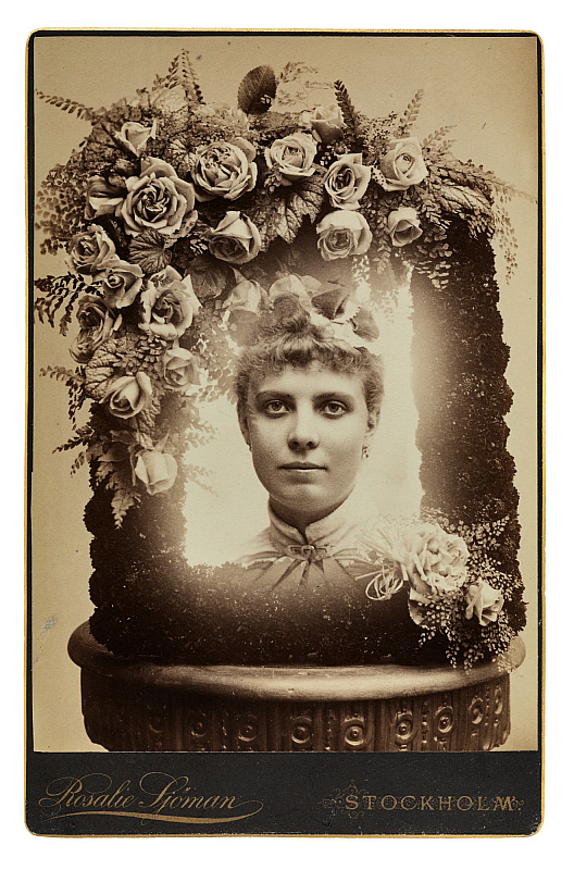 Photographic portrait of Alma Sjöman taken by her mother, the early Swedish female photographer Rosalie Sjöman.